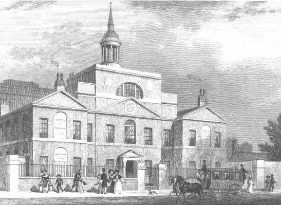 City of London Lying-in Hospital. Built 1770-1773 by architect (1733-1810), later demolished.